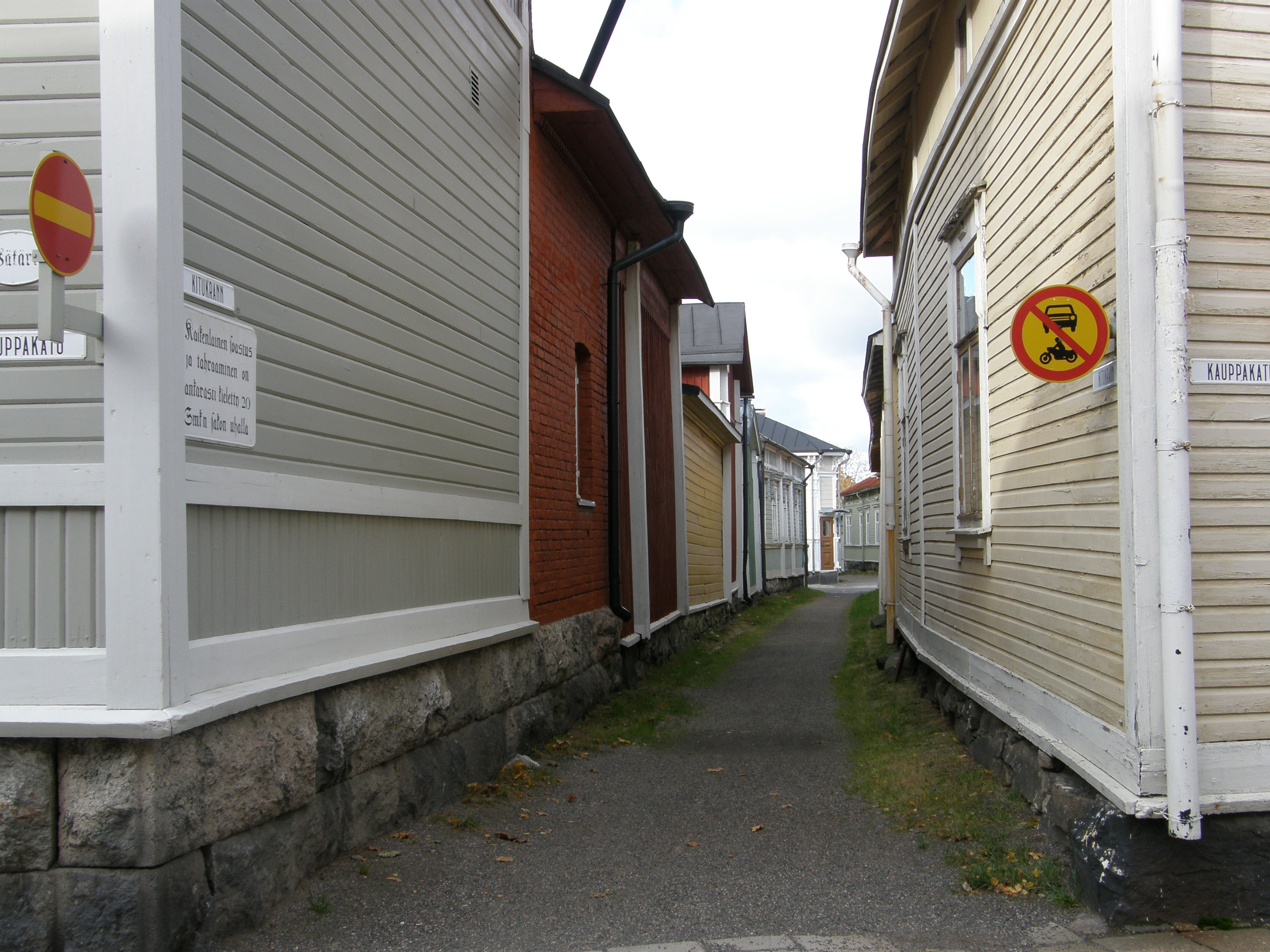 Rauma Kitukränn The narrowest street in Finland